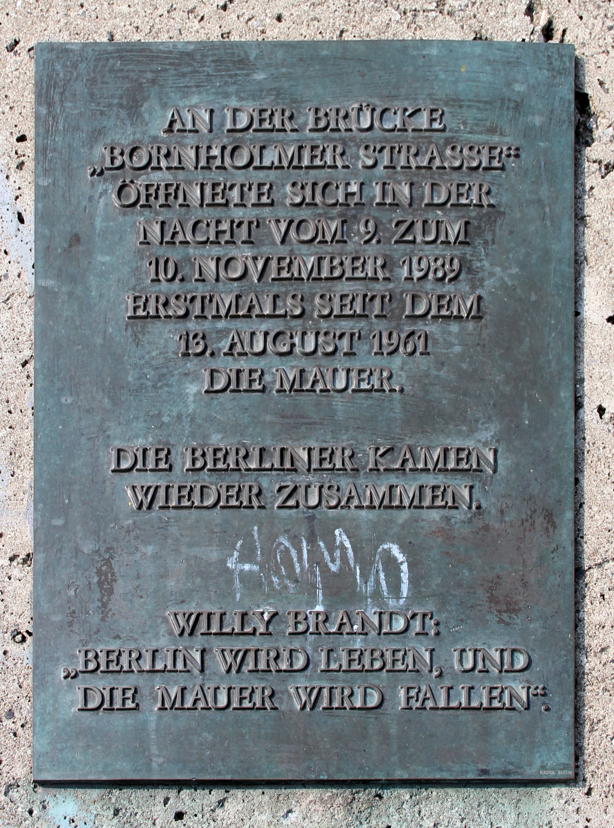 Memorial plaque, Berliner Mauer, Bornholmer Straße, Berlin-Prenzlauer Berg, Germany